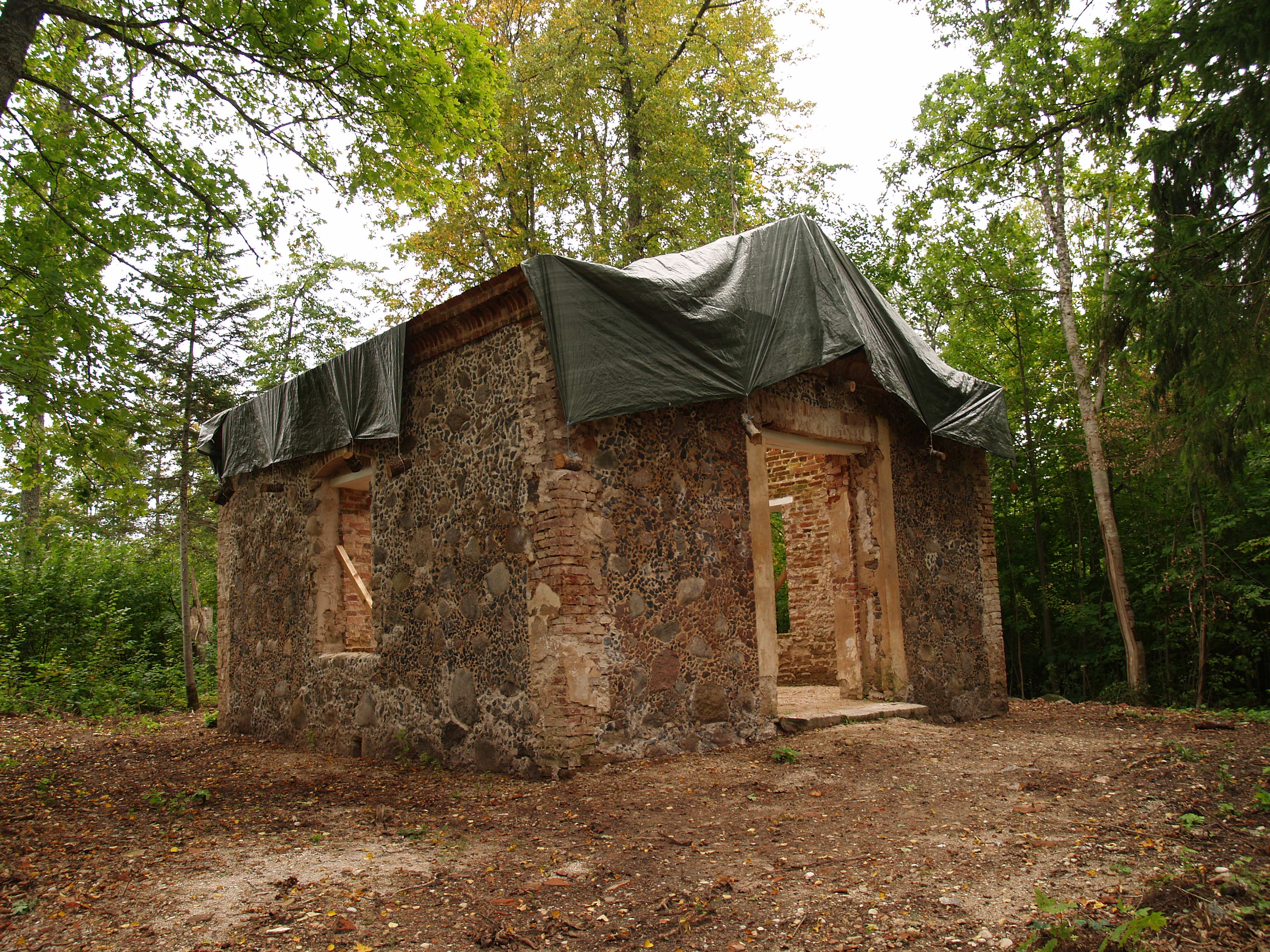 Restoration of Anrep family chapel near the Lion of Anrep in Kärstna, Viljandi County, Estonia.